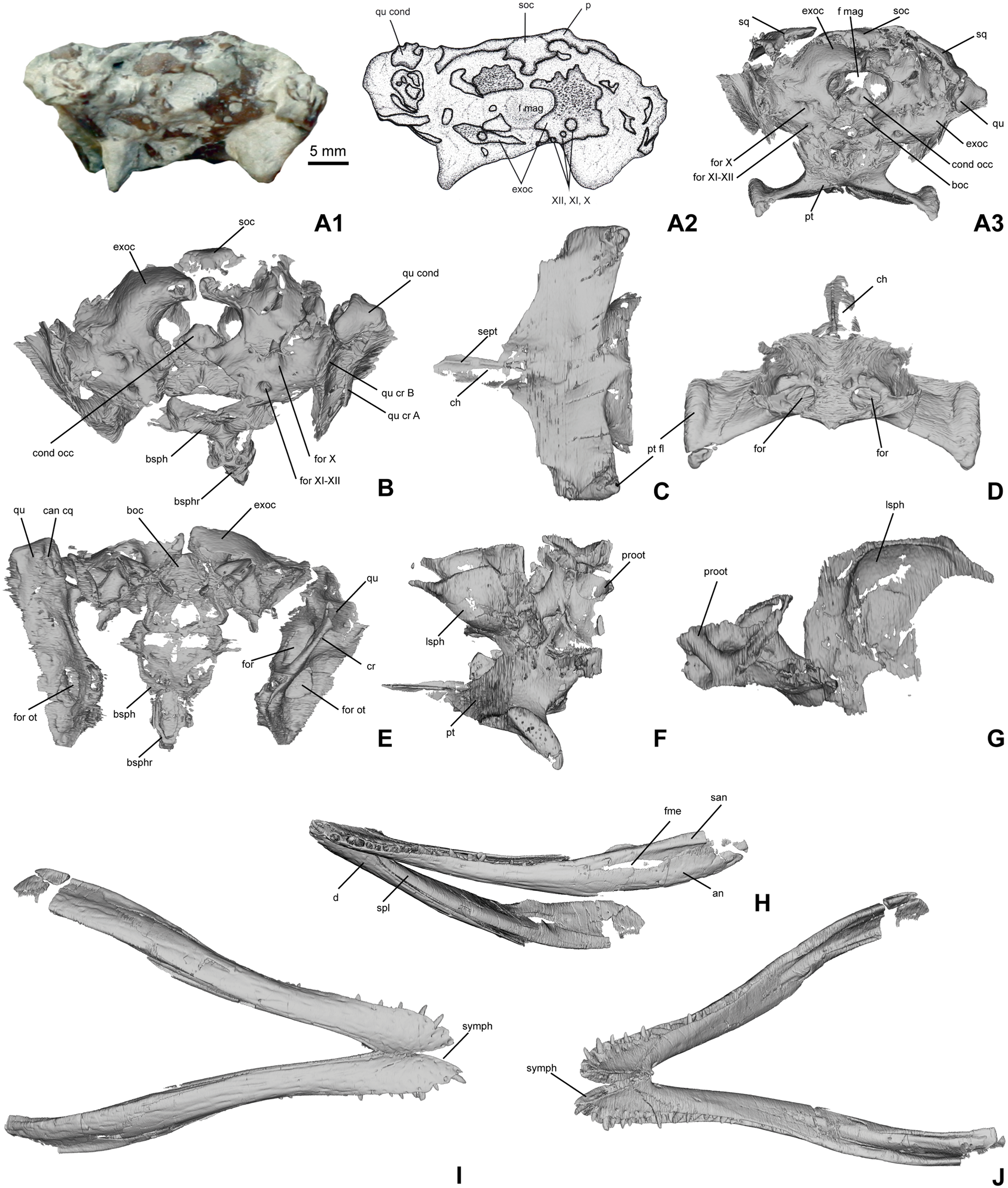 Fig 6. DFMMh/FV 605, skull and mandible of Knoetschkesuchus langenbergensis gen. nov. sp. nov., juvenile specimen. (A) Occipital view of skull, (A1) photograph of the original specimen on the left side, (A2) interpretative drawing with labels in the middle, and (A3) reconstructed 3D data as derived from MeshLab (FOV: Ortho; only skull elements originally visible and important in the respective view are shown). (B) Caudoventral aspect of skull with basisphenoid exposed. (C) Pterygoid in ventral aspect. (D) Pterygoid in dorsal aspect. (E) Dorsal aspect of ventral skull elements, featuring quadrates, exoccipitals, basioccipital and basisphenoid. (F) Left lateral aspect of braincase wall including pterygoid, prooticum and laterosphenoid. (G) Medial aspect of left laterosphenoid and prooticum. (H) Mandible in left ventrolateral aspect. (I) Mandible in ventral aspect. (J) Mandible in dorsal aspect. For anatomical abbreviations, see text. 3D images are not to scale.